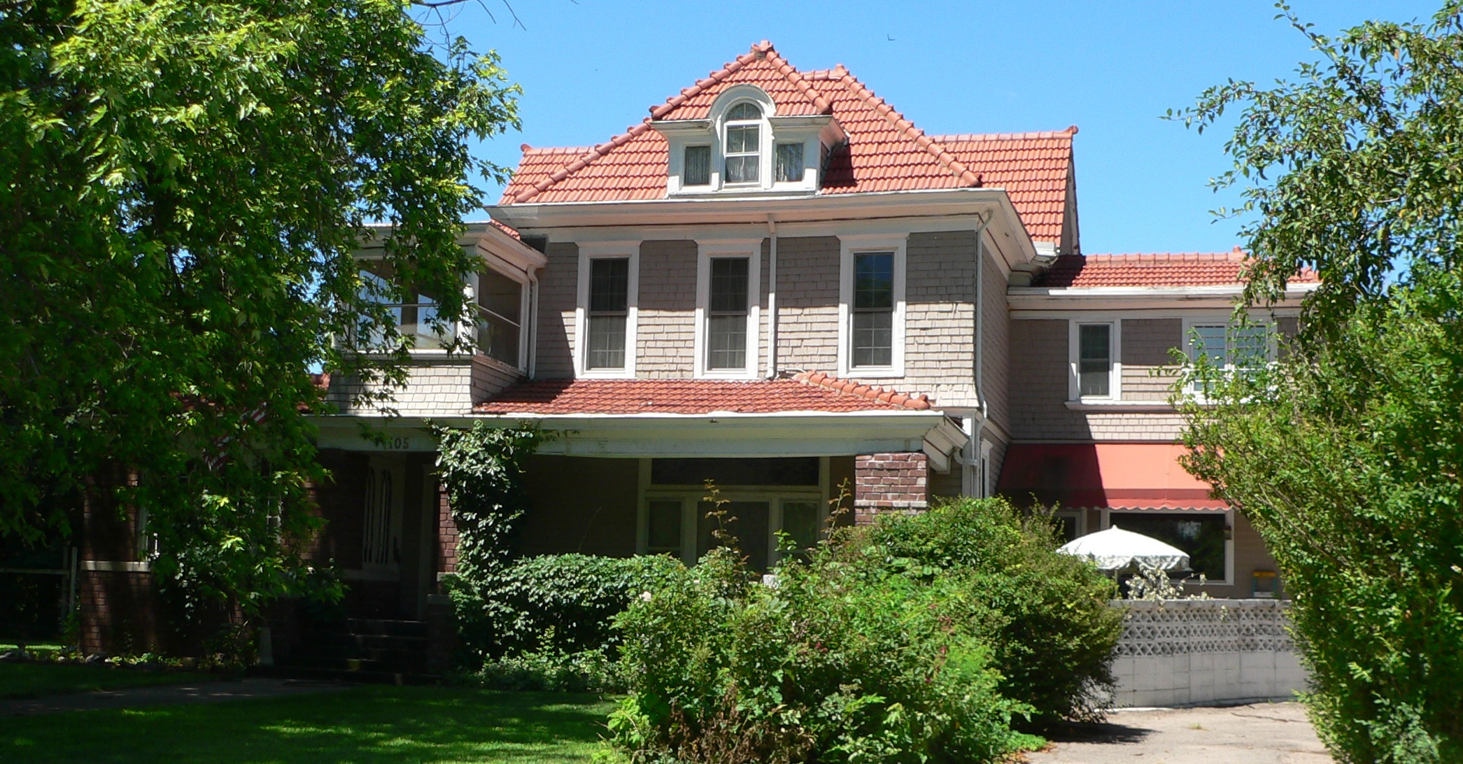 Nowlan-Dietrich House at 1105 N. Kansas Avenue in Hastings, Nebraska; seen from the east (Kansas Ave). The house was built in 1886; it is listed in the National Register of Historic Places.